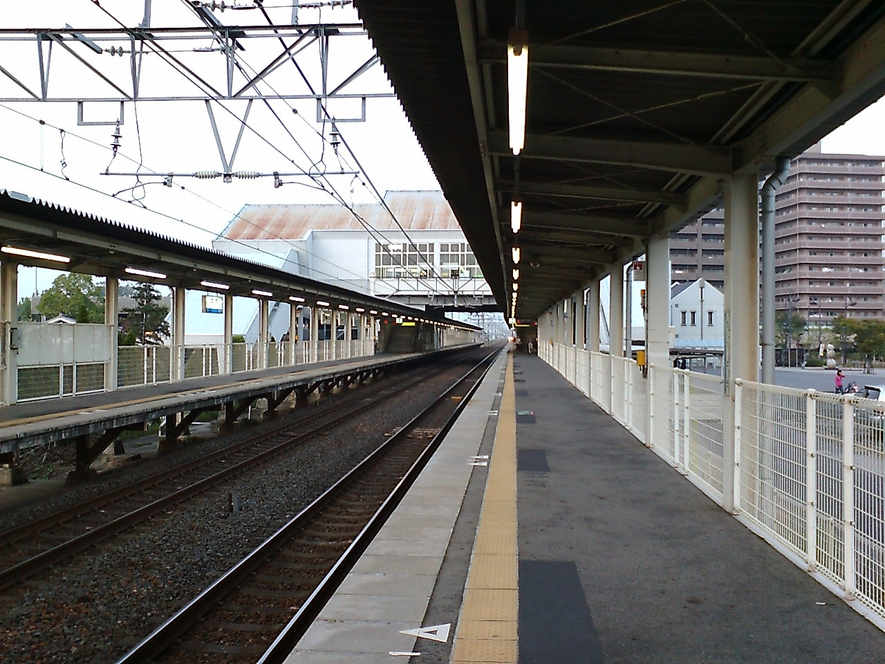 Ritto Station Platform